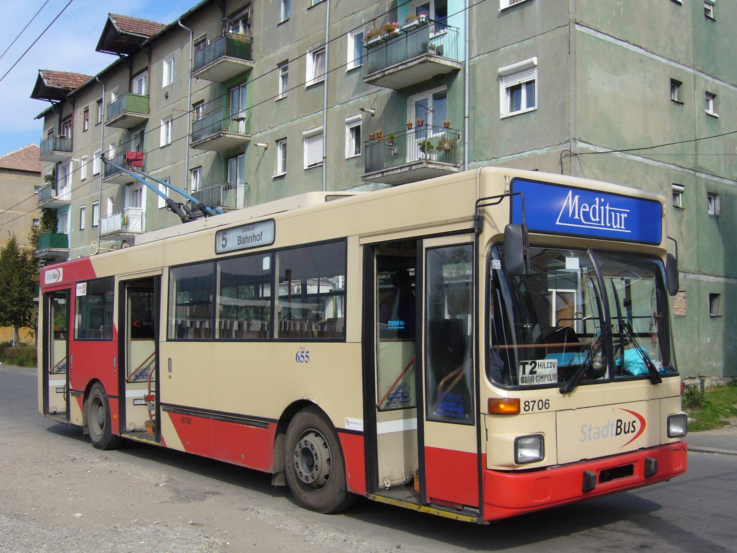 Built in 1987 by Gräf & Stift, trolleybus 655 in Mediaş, Romania was previously number 8706 (ex-106) in the fleet of Salzburg, Austria's StadtBus. After being withdrawn from service in Salzburg in 2002, it was acquired by the group, Pro Obus Salzburg, who donated it to Mediaş in 2005. It is shown on Mediaş route T2. Its main front sign has been altered to show the name of the Mediaş transport system operator, Meditur, but its apparently unused-in-Mediaş side sign is showing a display for Salzburg route 5.